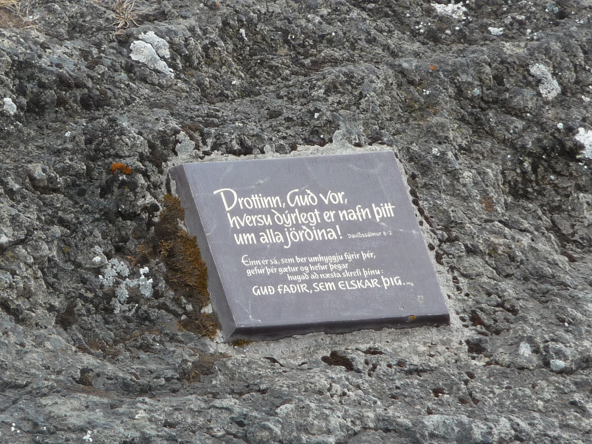 A plaque on the Goðafoss waterfall in north-eastern Iceland.